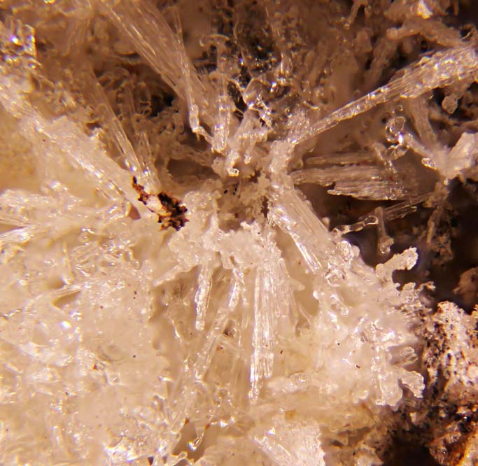 White acicular crystals of this rare fluoroborate from an Italian locality (Fiano, Lavorate (Nocera), Sarno, Campania, Italy).